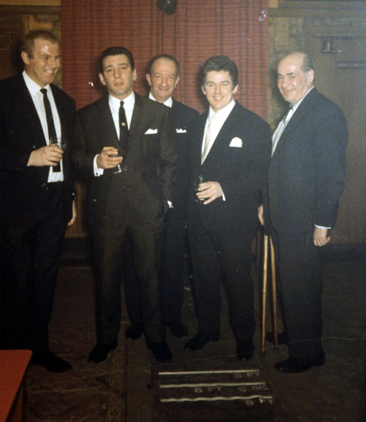 Description: Photograph of London gangster Reginald "Reggie" Kray (second left) taken in the months leading up to his trial in 1968. The evidence from this file and others resulted in he and his brother Ronald being sentenced to life imprisonment. Date: c.1968 Our Catalogue Reference: CRIM 1/5006 This image is from the collections of The National Archives. Feel free to share it within the spirit of the Commons. For high quality reproductions of any item from our collection please contact our image library.